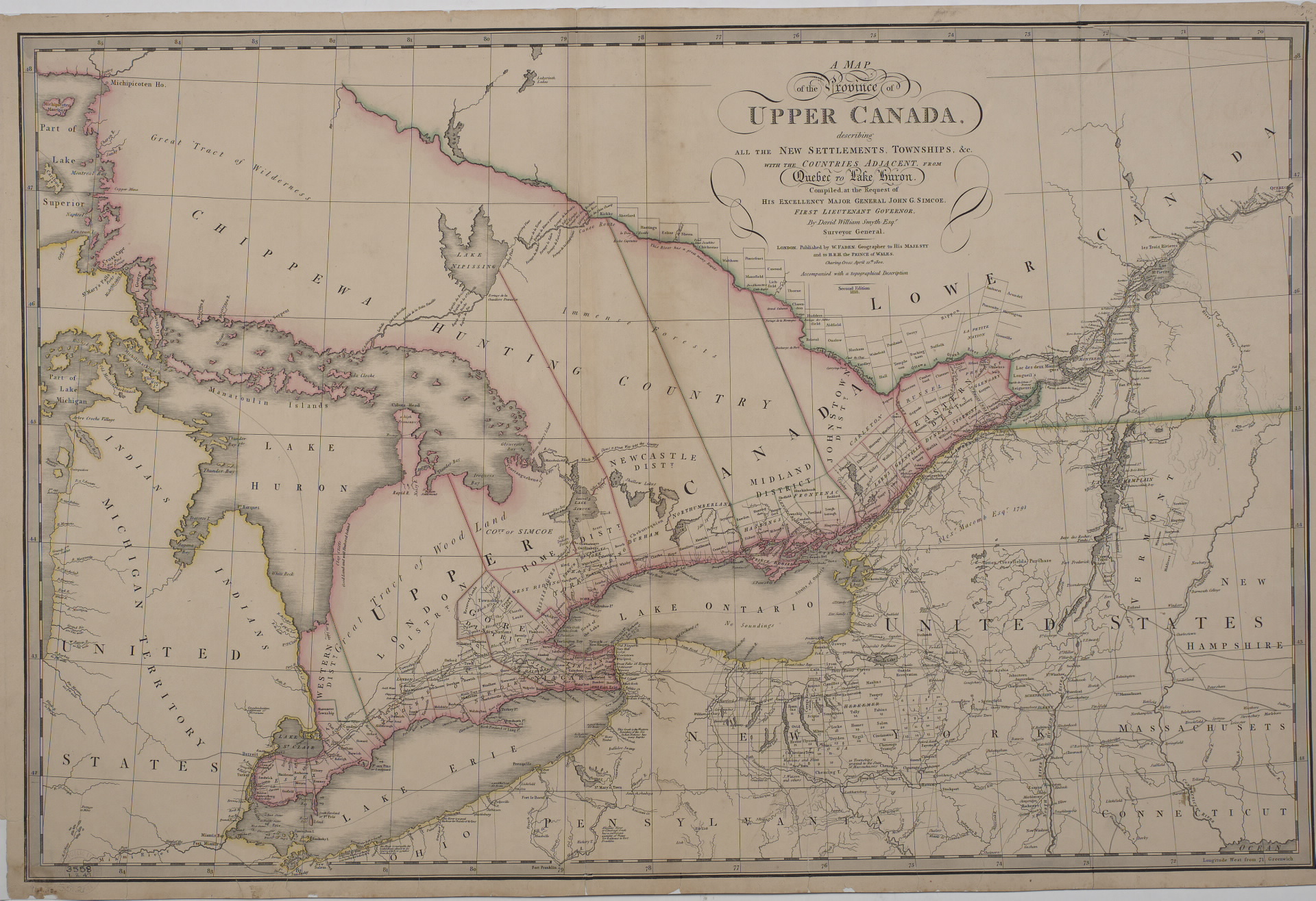 A second edition of the first printed map of Upper Canada. This image is available from the Toronto Public LibraryThis tag does not indicate the copyright status of the attached work. A normal copyright tag is still required. See Commons:Licensing. English | français | +/−